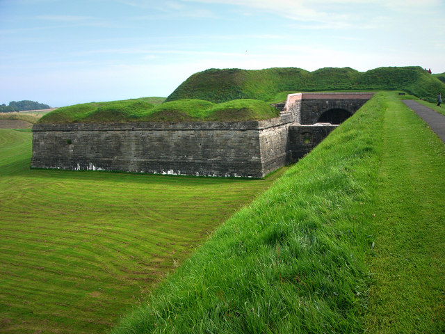 Looking towards Brass Bastion